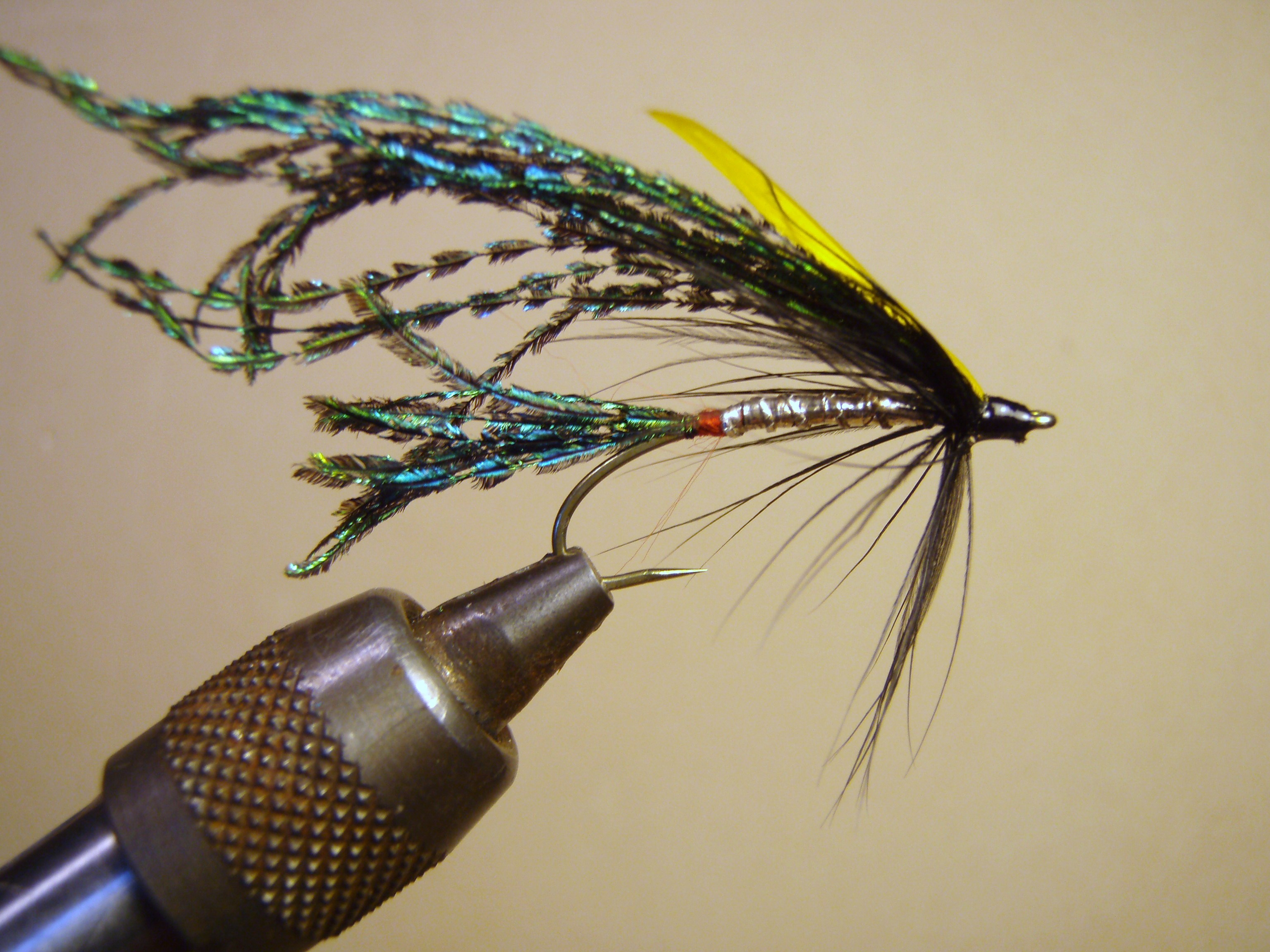 Alexandra Fly based on the Mary Orvis Marbury pattern in Favorite Flies and Their Histories (1892)